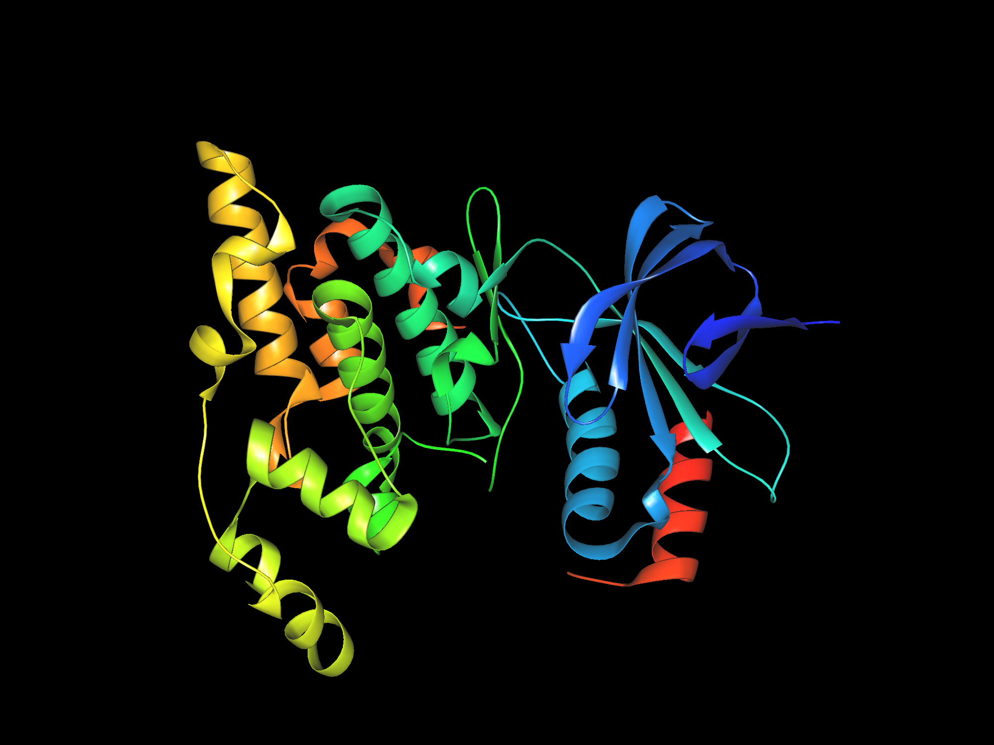 Stucture of JNK kinase